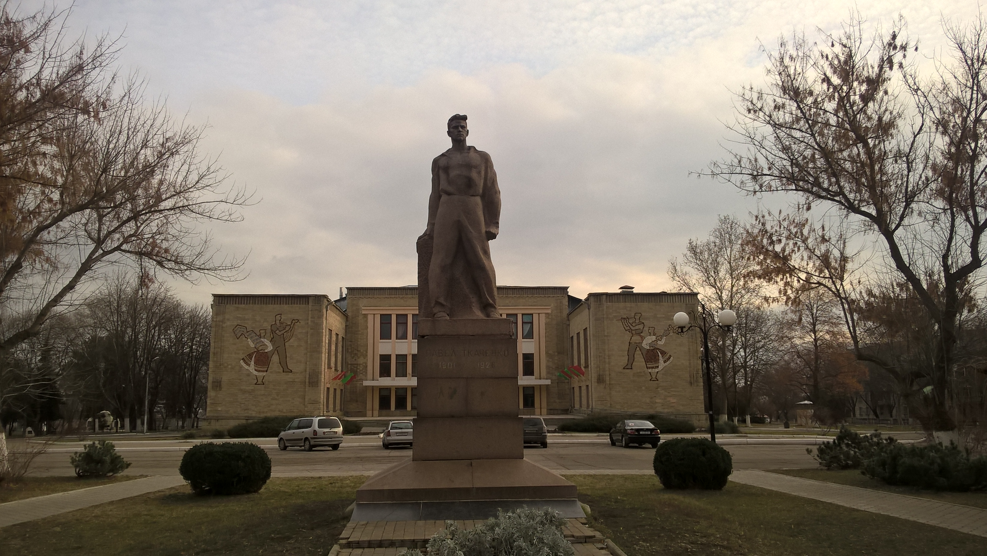 Monument of Communist activist and revolutionary Pavel Tkachenko, Bender, Transnistria, Moldova